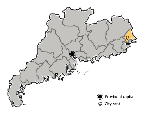 The prefecture-level city of Chaozhou is highlighted on this map of Guangdong province, People's Republic of China.